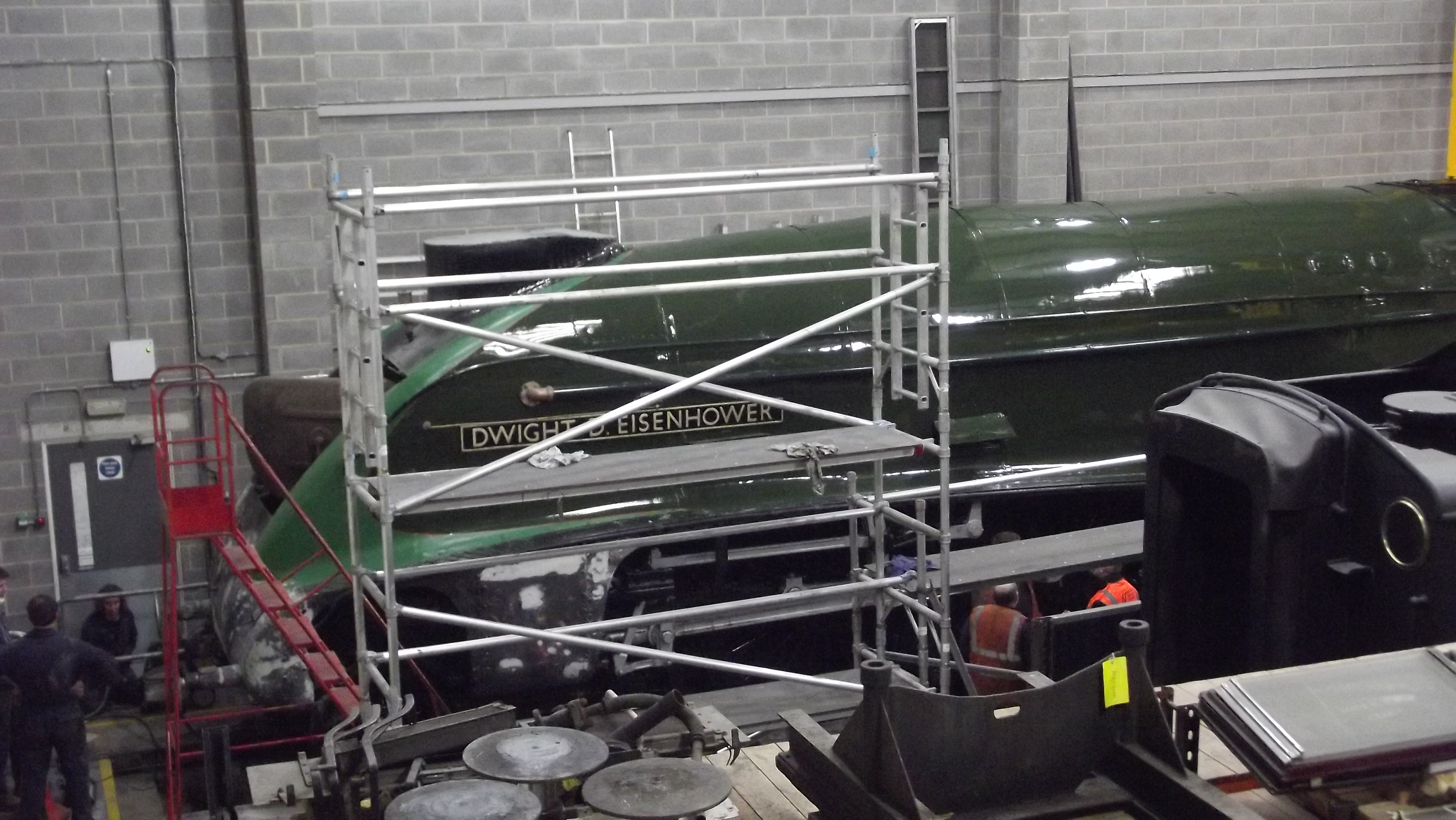 Dwight D Eisenhower being painted by heritage painting